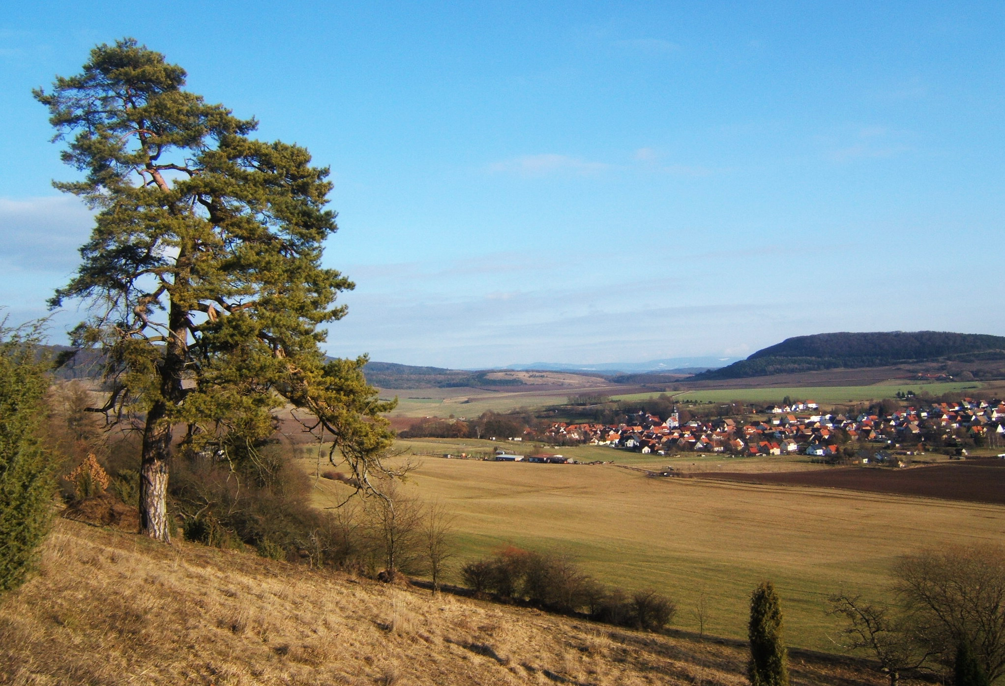 Wiesenthal (Rhön), Germany